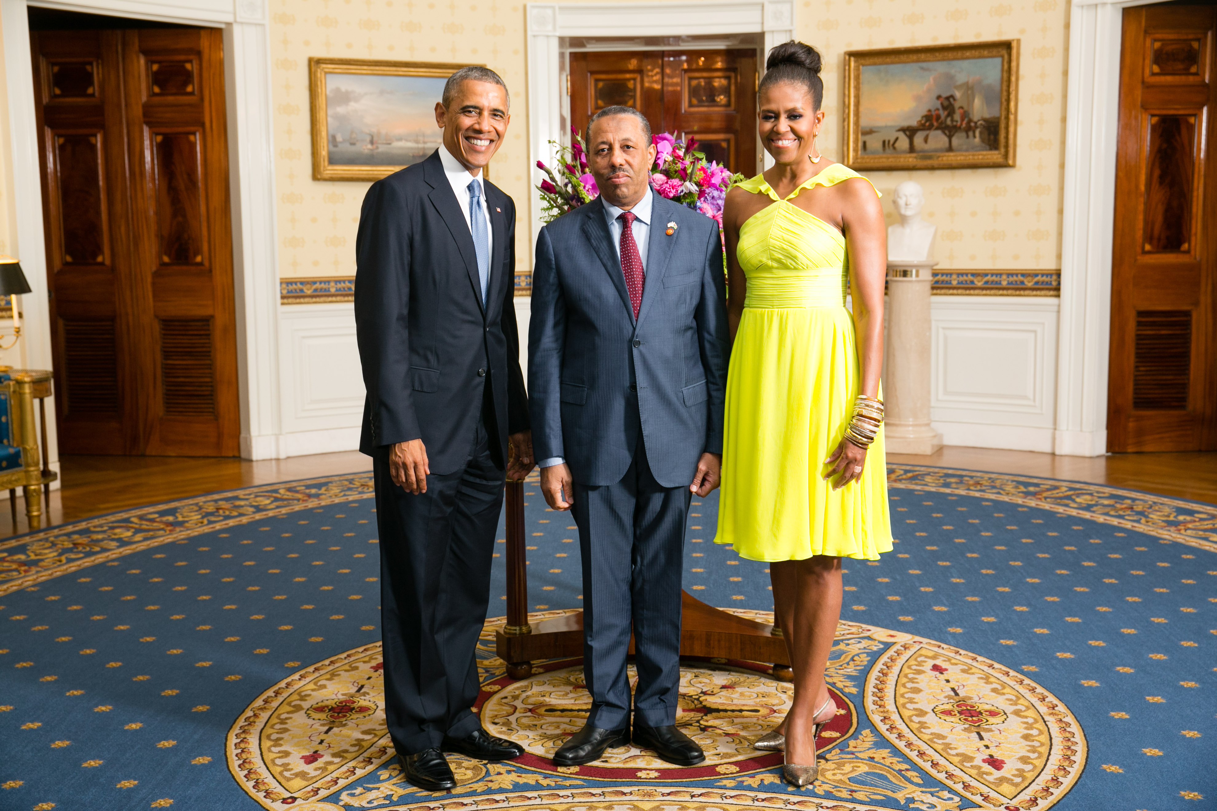 President Barack Obama and First Lady Michelle Obama greet His Excellency Abdalla A.M. Alteni, Prime Minister of the State of Libya, in the Blue Room during a U.S.-Africa Leaders Summit dinner at the White House, Aug. 5, 2014. [Official White House Photo by Amanda Lucidon] This official White House photograph is in the public domain from a copyright perspective, so while restrictions such as personality or privacy rights may apply, in general, manipulations are allowed.